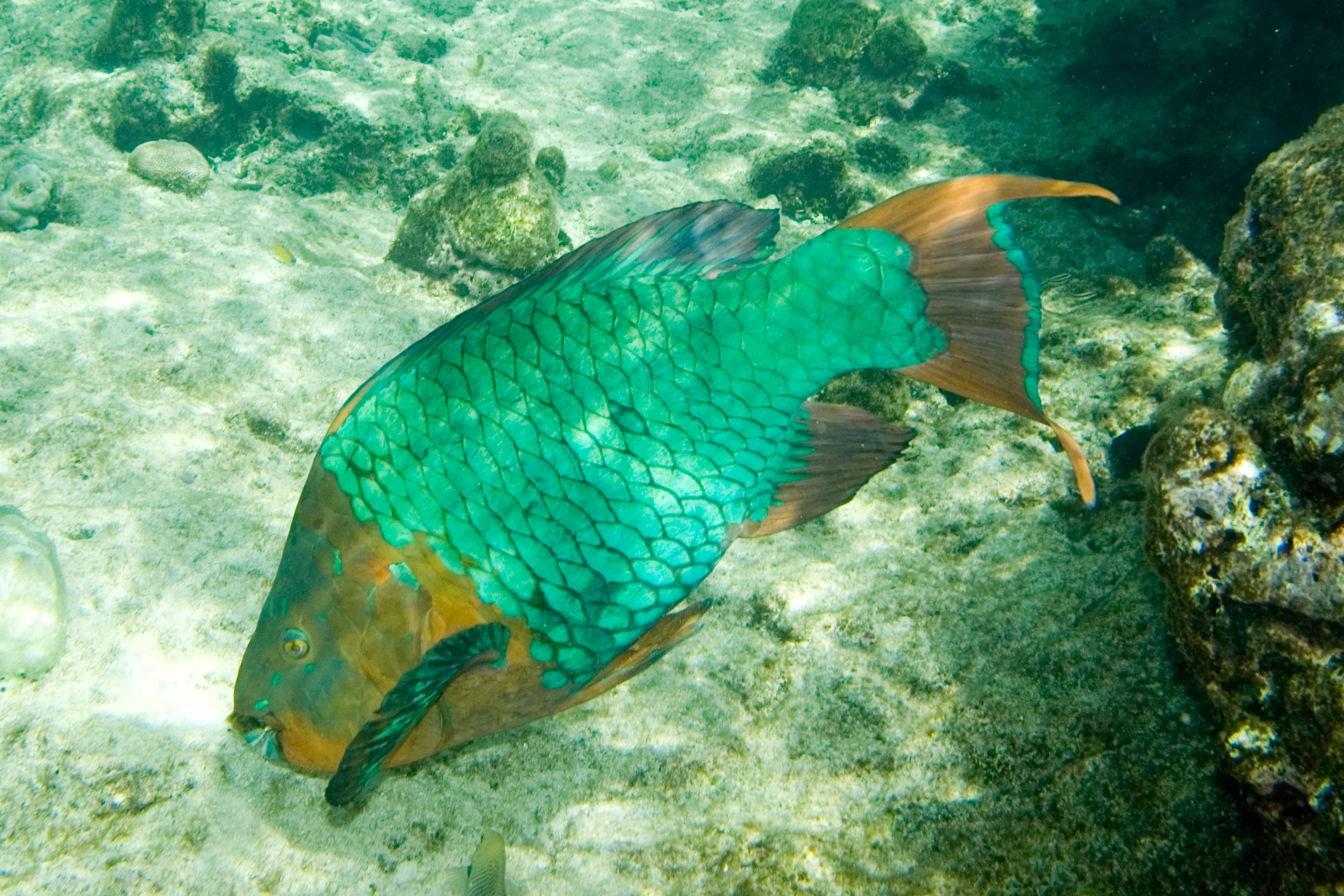 Rainbow parrotfish (Scarus guacamaia) terminal phase